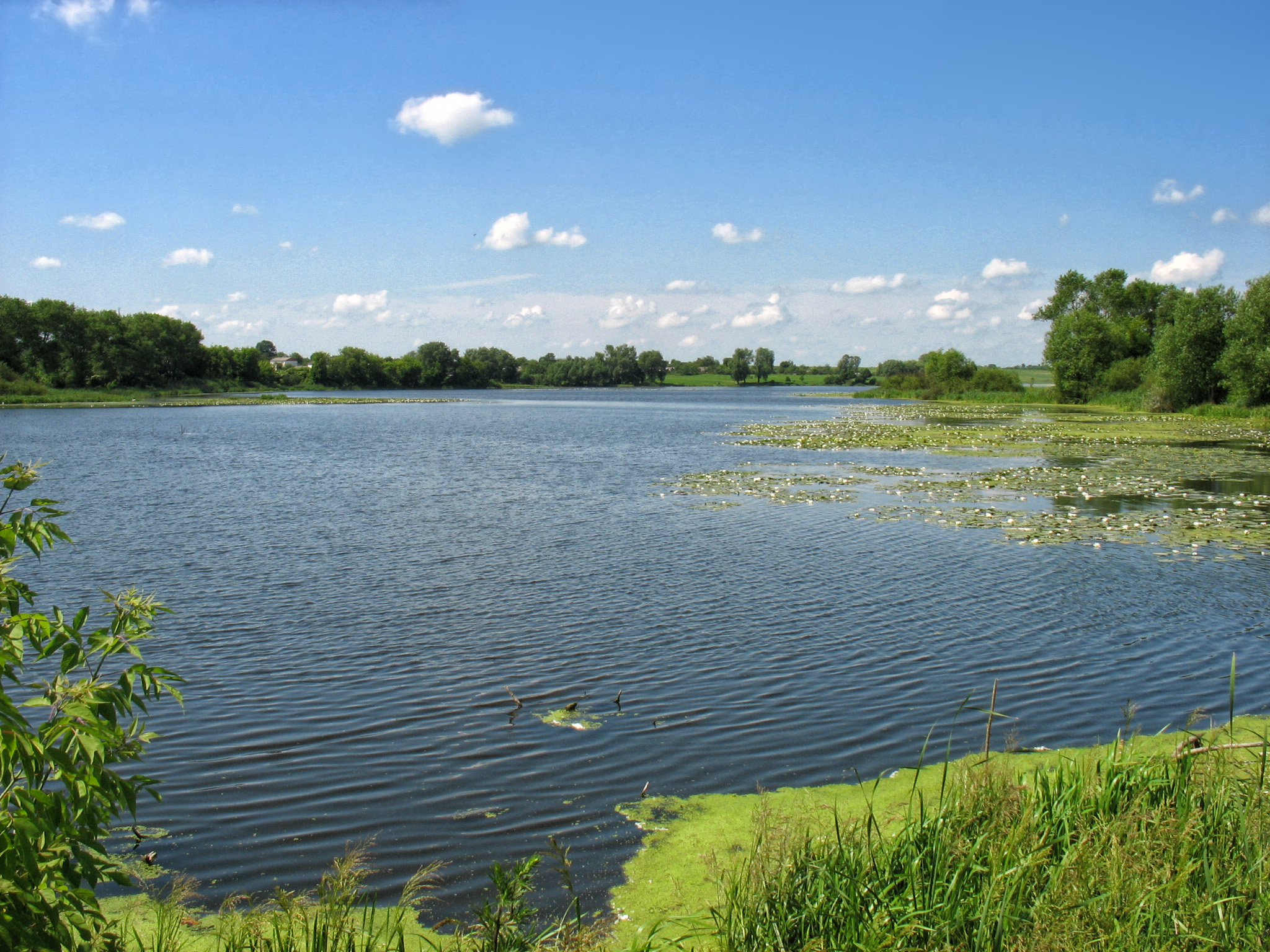 Pivdenny Bug river, hydrological preserve "Bashta"